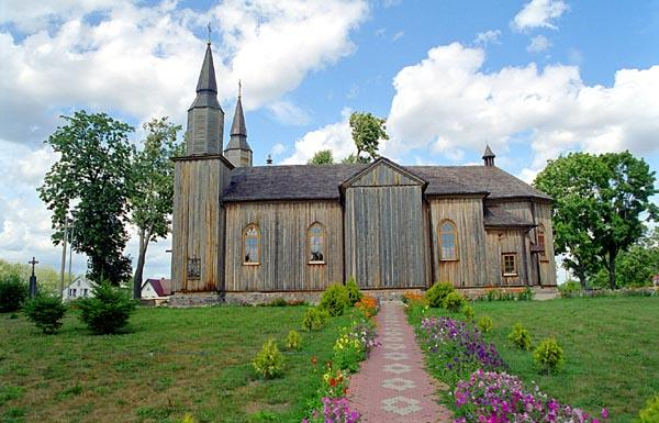 Jeleniowo Church in Poland